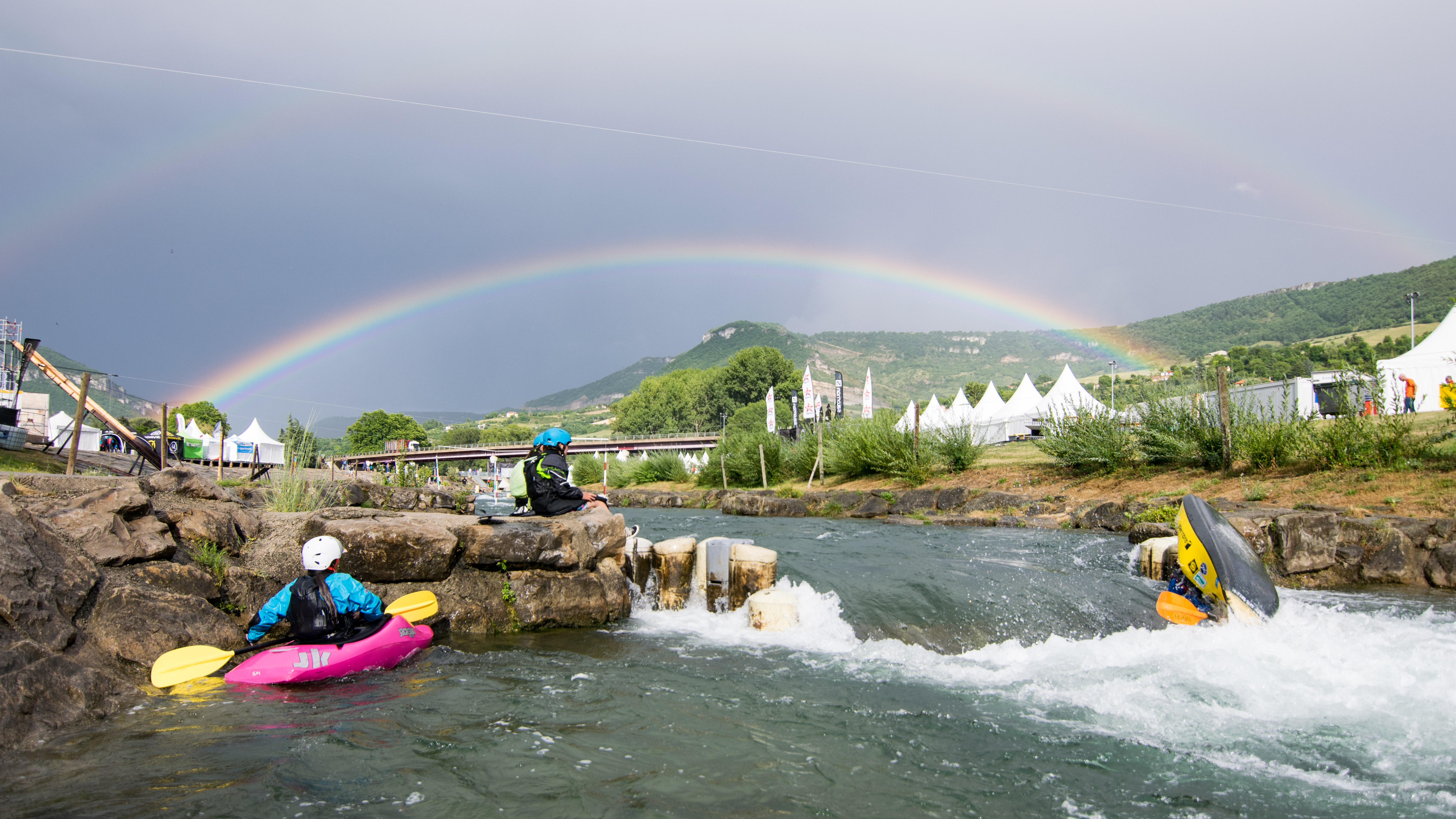 Playboating during the freestyle kayaking european cup, at the Natural Games 2017 in Millau, France.